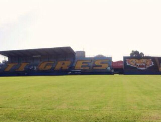 Aurora F.C. Stadium